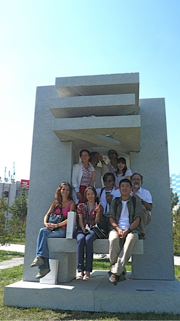 Int.Friendship Sculpture Park Urumqi China 2007 granite, 12'h x10'w x10'w